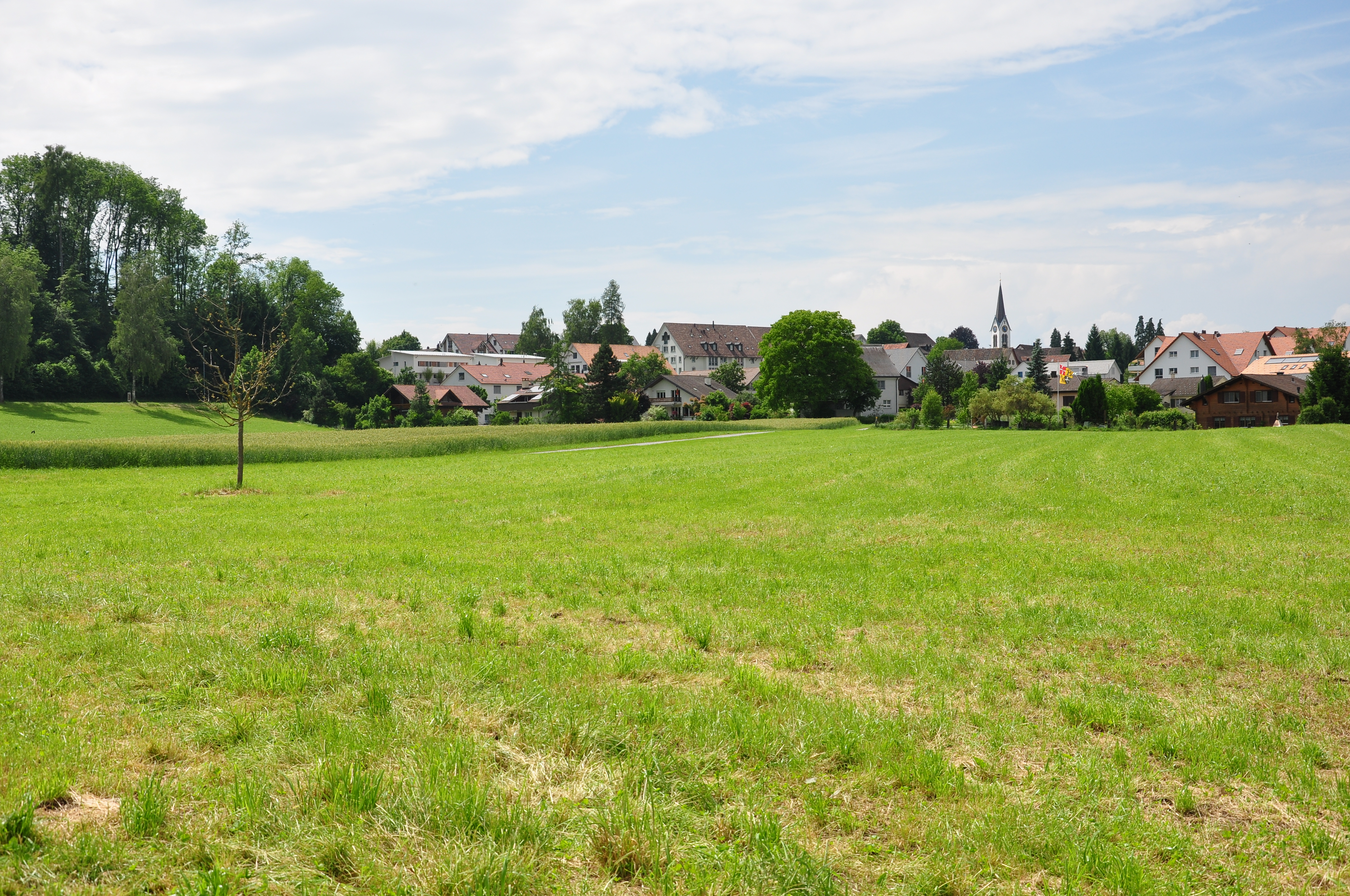 Bubikon (Switzerland) as seen from nearby Ritterhaus